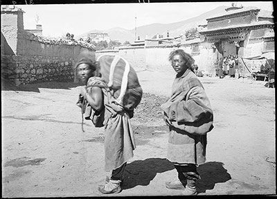 Corpse being carried from Lhasa for sky burial, the corpse is sewn into a yak hair cloth and two white silk Khata as offerings